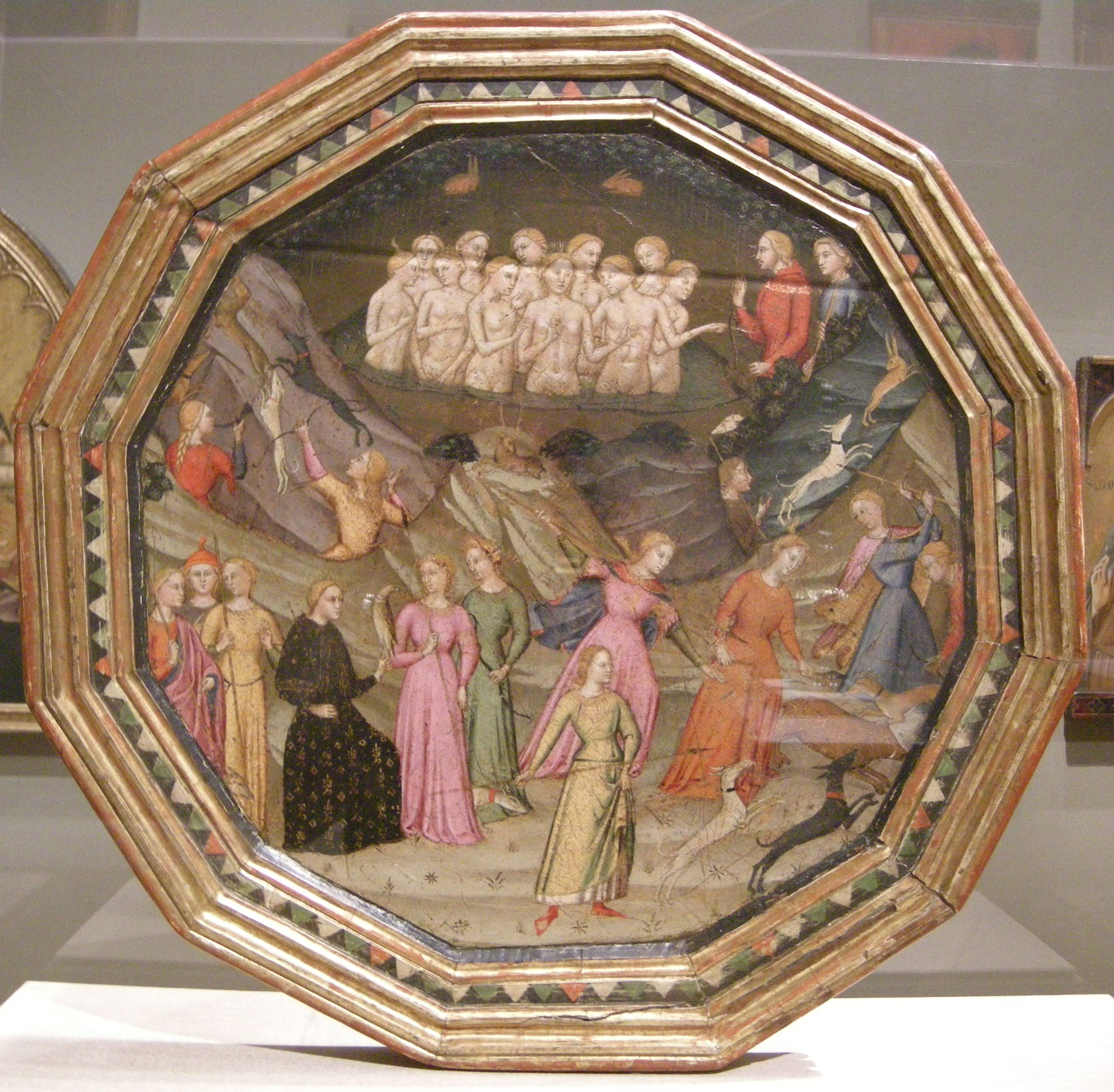 Obverse of birth salver,Diana and Actaeon